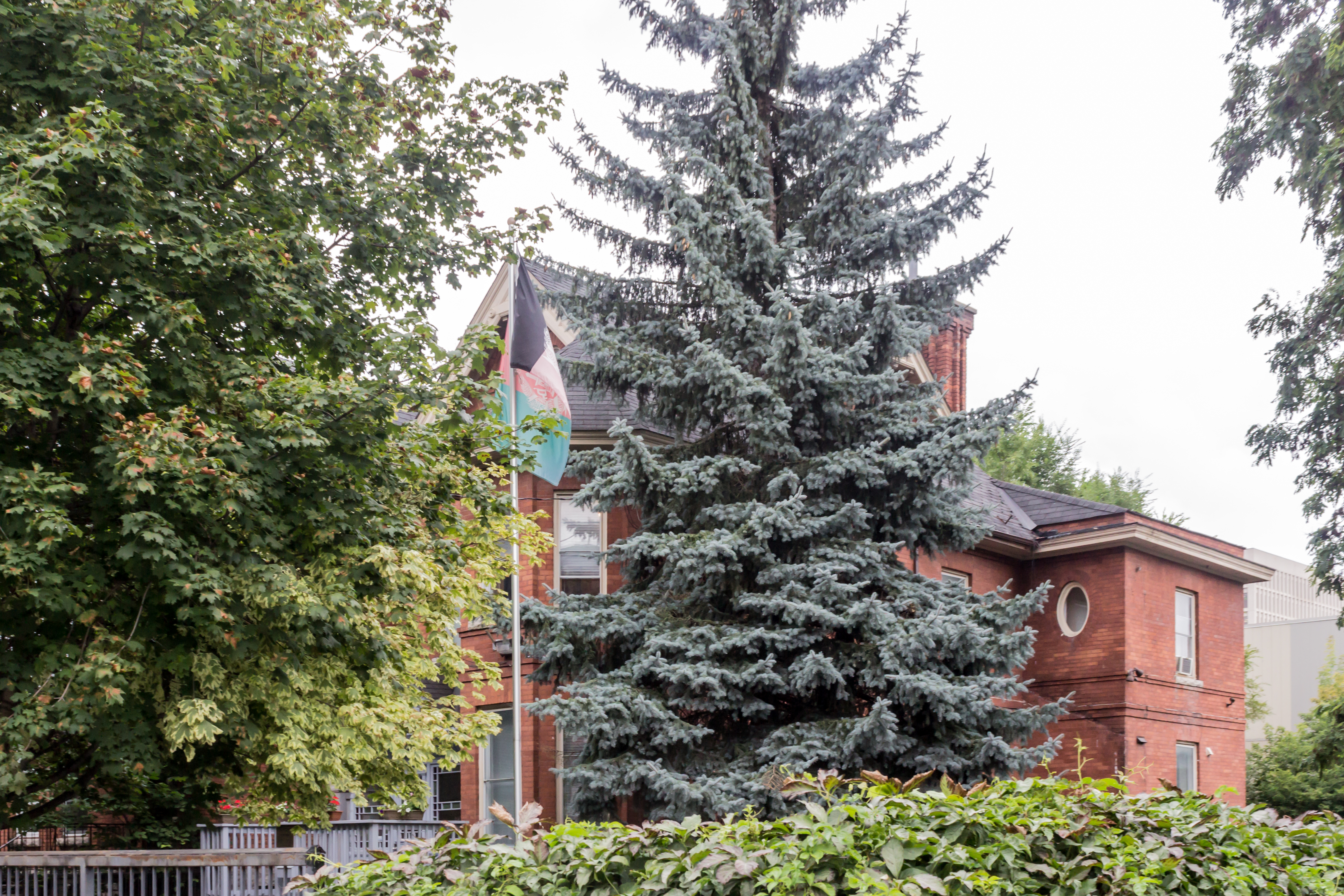 The Afghan embassy to Canada in Ottawa at 240 Argyle Street